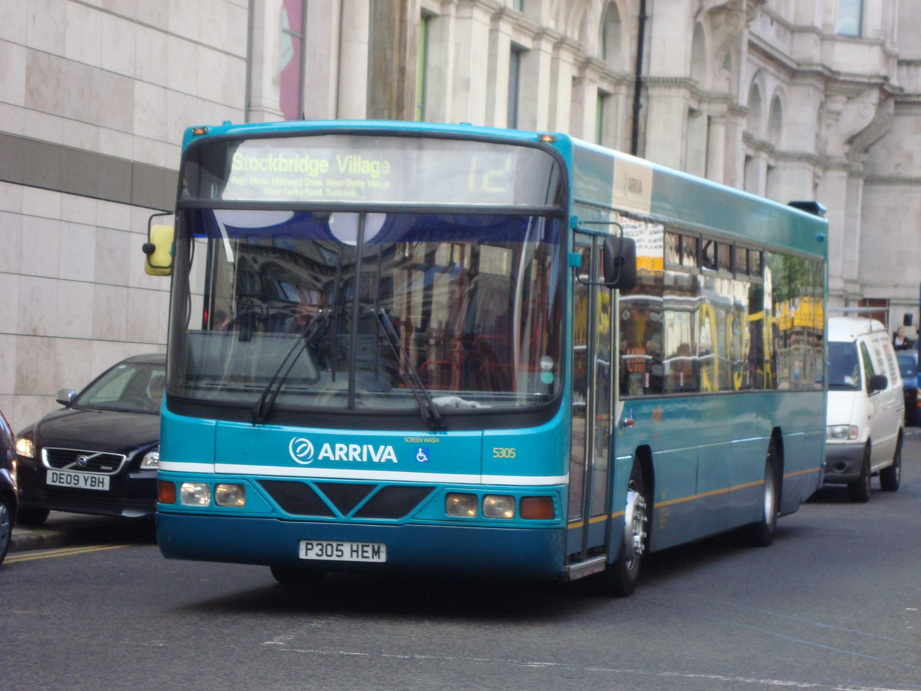 Arriva North West 5305 (P305 HEM), a Scania L113CRL/Wright Axcess-Ultralow, seen in Arriva interurban livery.